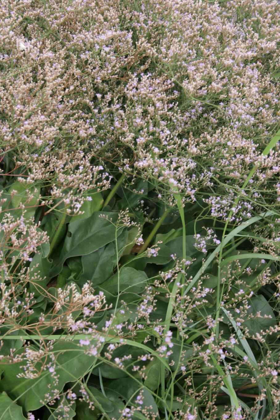 Limonium humile: Habitus (Photo from the Botanical Garden of Aarhus, Denmark)